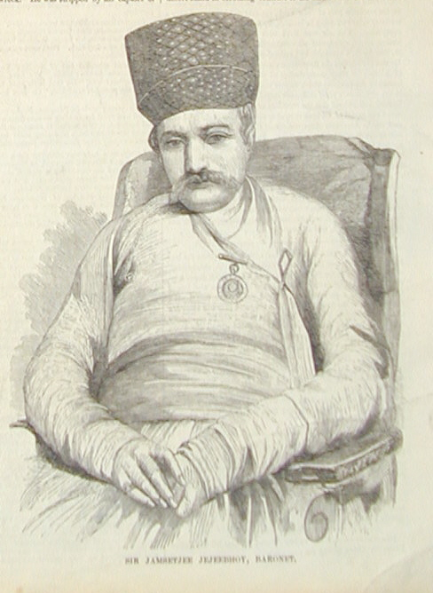 Sir Jamsetjee Jejeebhoy, 1st Baronet. From Ballou's Pictorial, 1857.